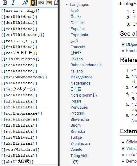 Interlanguage links prior to Wikidata. Links in the edit box on the left, and as presented when the page is saved on the right.